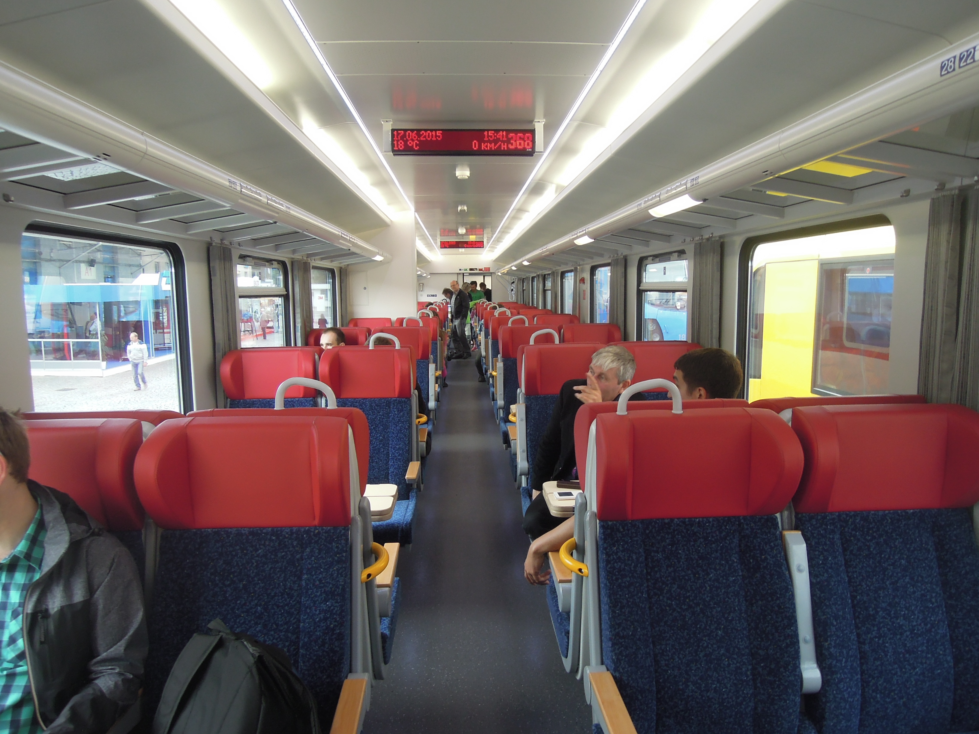 Passenger car class Bdmpeer of ZSSK at the Czech Raildays 2015 trade fair in Ostrava, Czech Republic